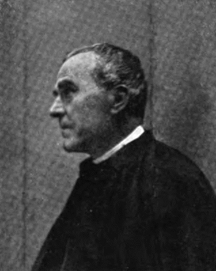 Jacint Verdaguer.